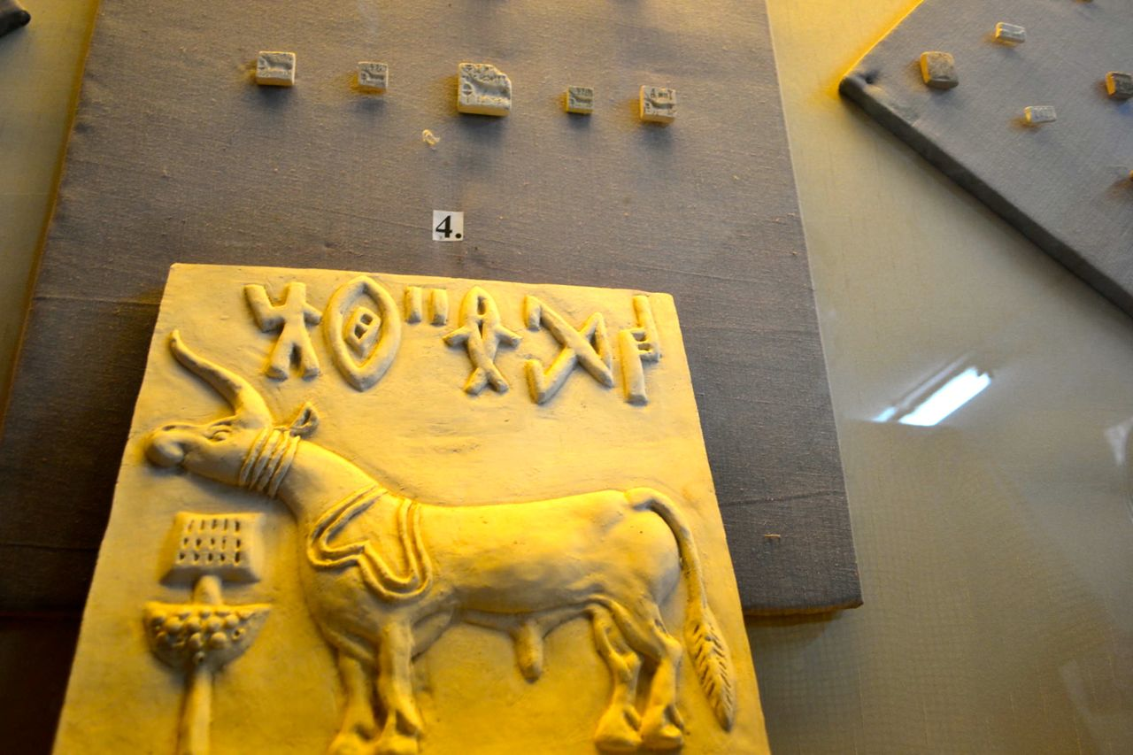 Ancient site at Lothal